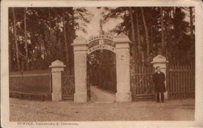 Gurewicz retreat before World War II, example of Świdermajer, a distinct Polish architectural style developed in late 19th and early 20th century in Masovia